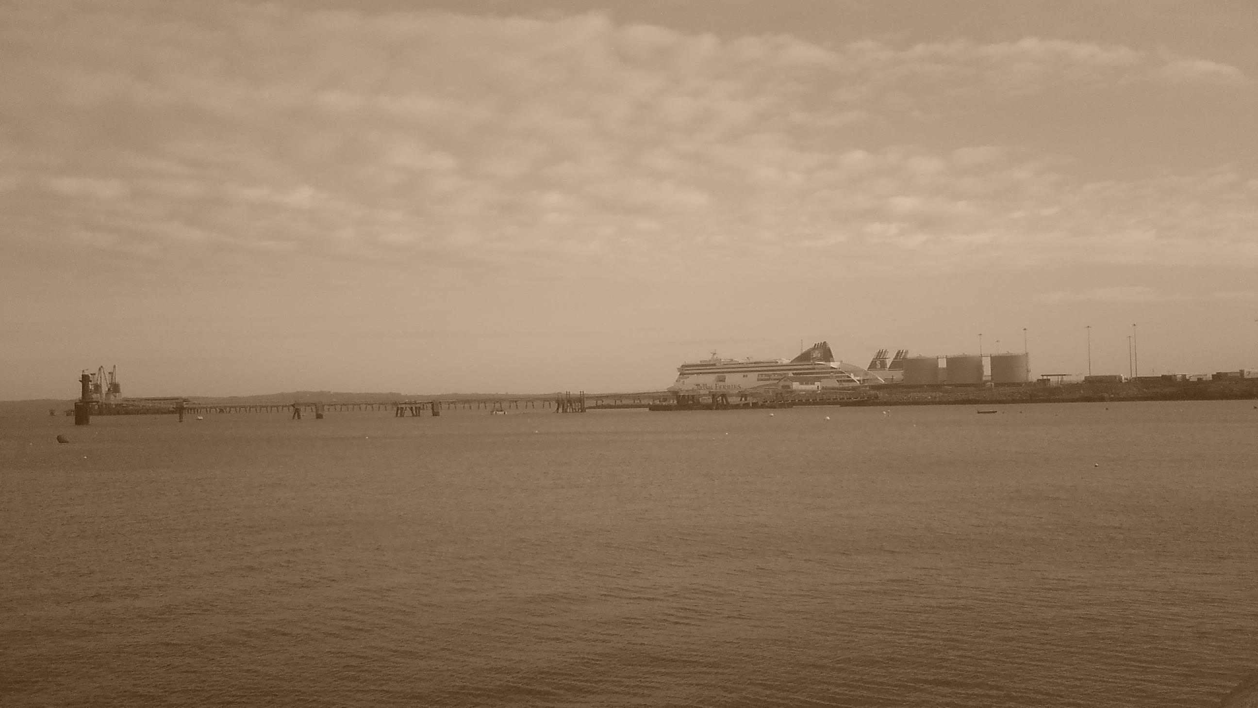 A photo of Admirality Pier, Salt Island (Ynys Halen), Anglesey, Wales